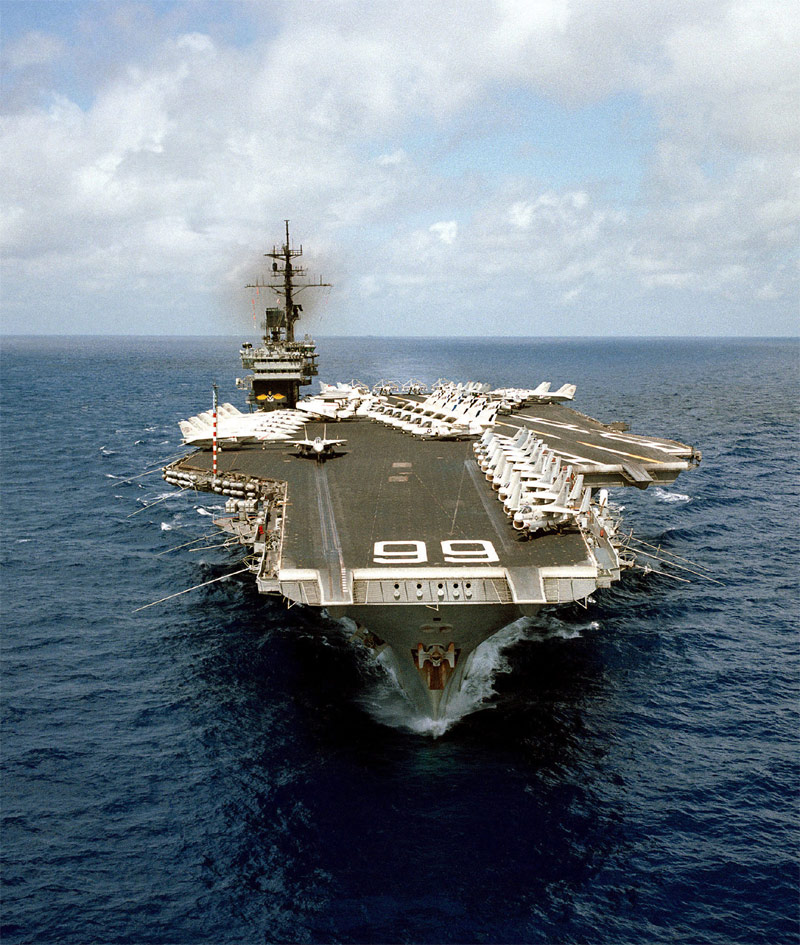 050420-N-0000X-002 Indian Ocean (en:24 April en:1983) - FILE PHOTO - An aerial bow view of the conventionally-powered aircraft carrier USS America (CV-66). America was decomissioned in August en:1996. U.S. Navy photo by Photographer's Mate 2nd Class Robert D. Bunge (RELEASED)